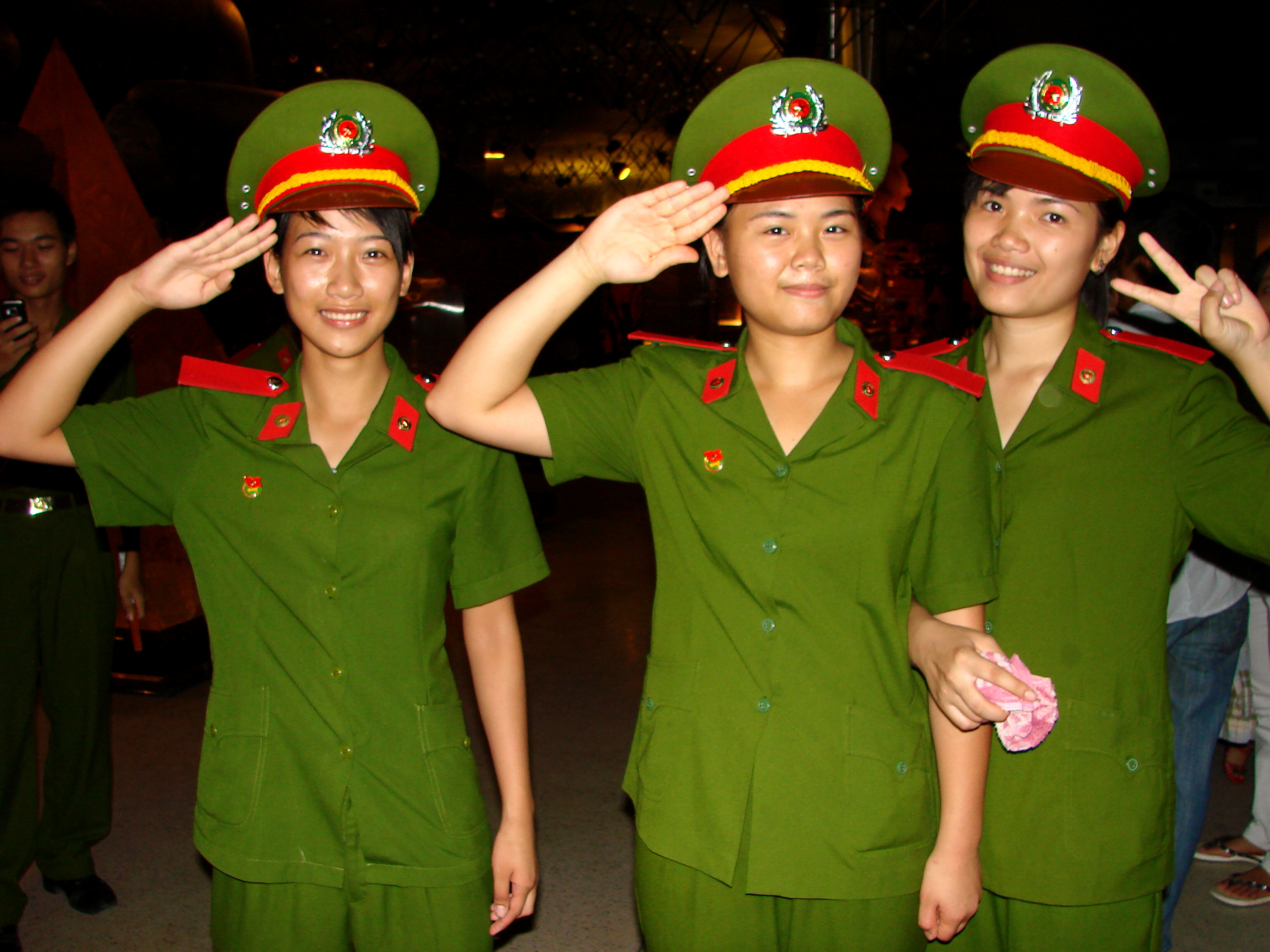 Student Policewomen at Ho Chi Minh Museum, Hanoi, Vietnam. June 2009.